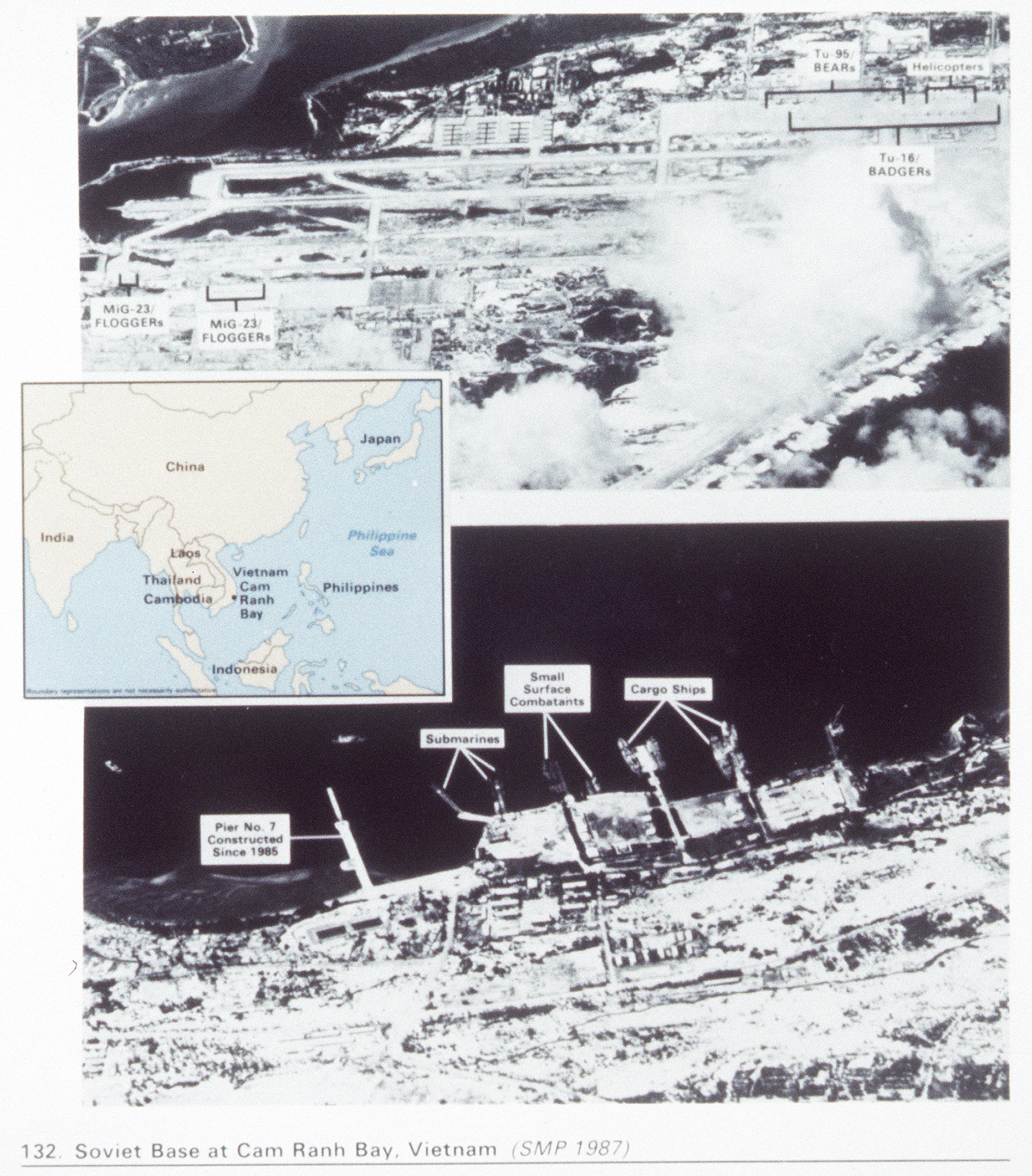 A high-altitude view and map of the Soviet base at Cam Ranh Bay, Vietnam, in 1987.